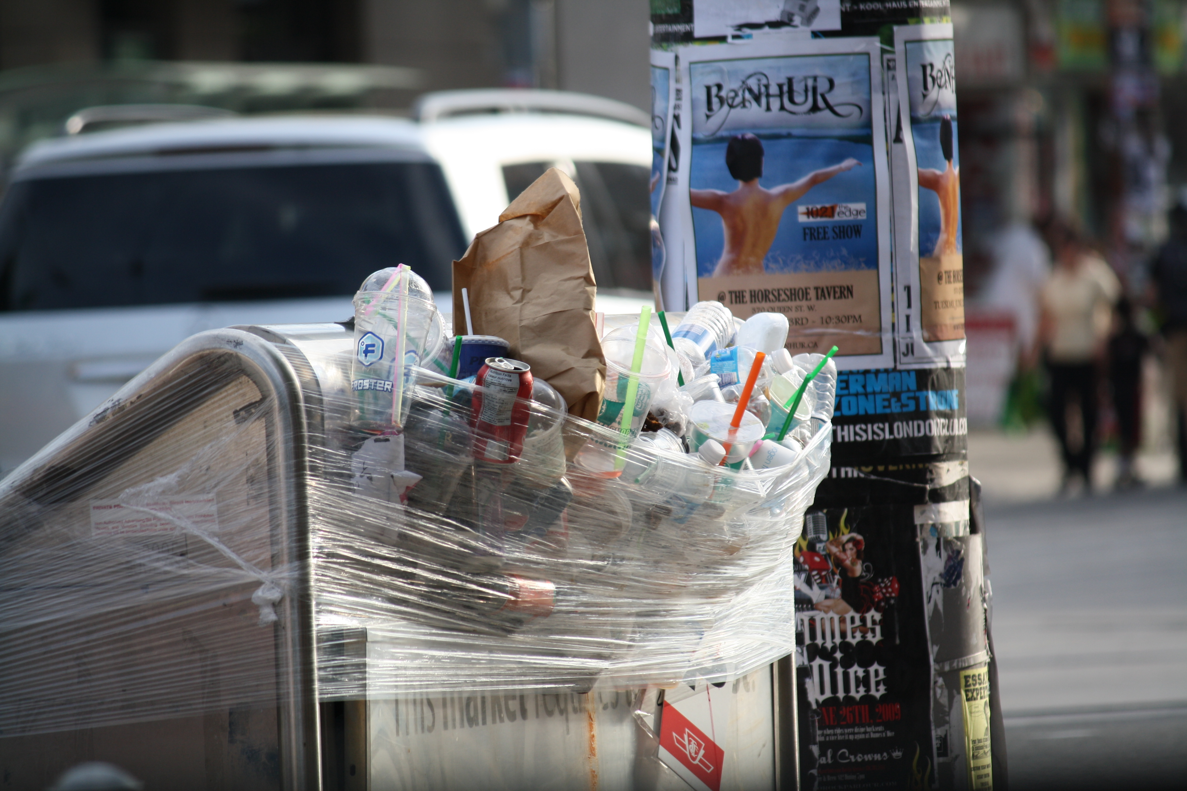 The city has sealed the downtown trash enclosures to prevent citizens from using bins, but Torontonians prefer not to litter the streets if we can help it.